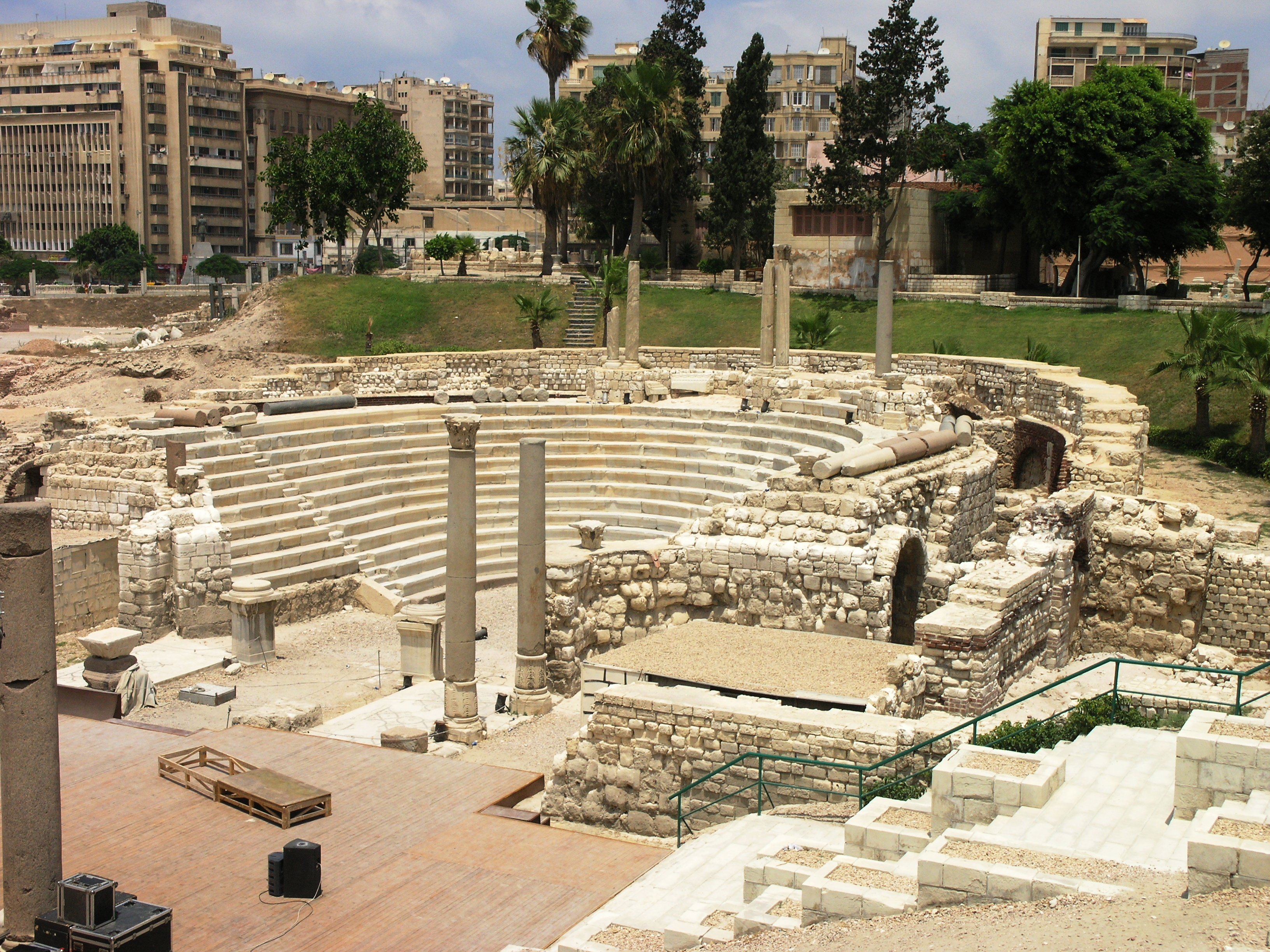 Alexandria - Roman Amphitheater